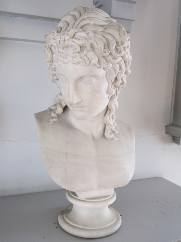 Bust of Adonis, Walker Art Gallery, Liverpool, England. 18th century, Italian School.